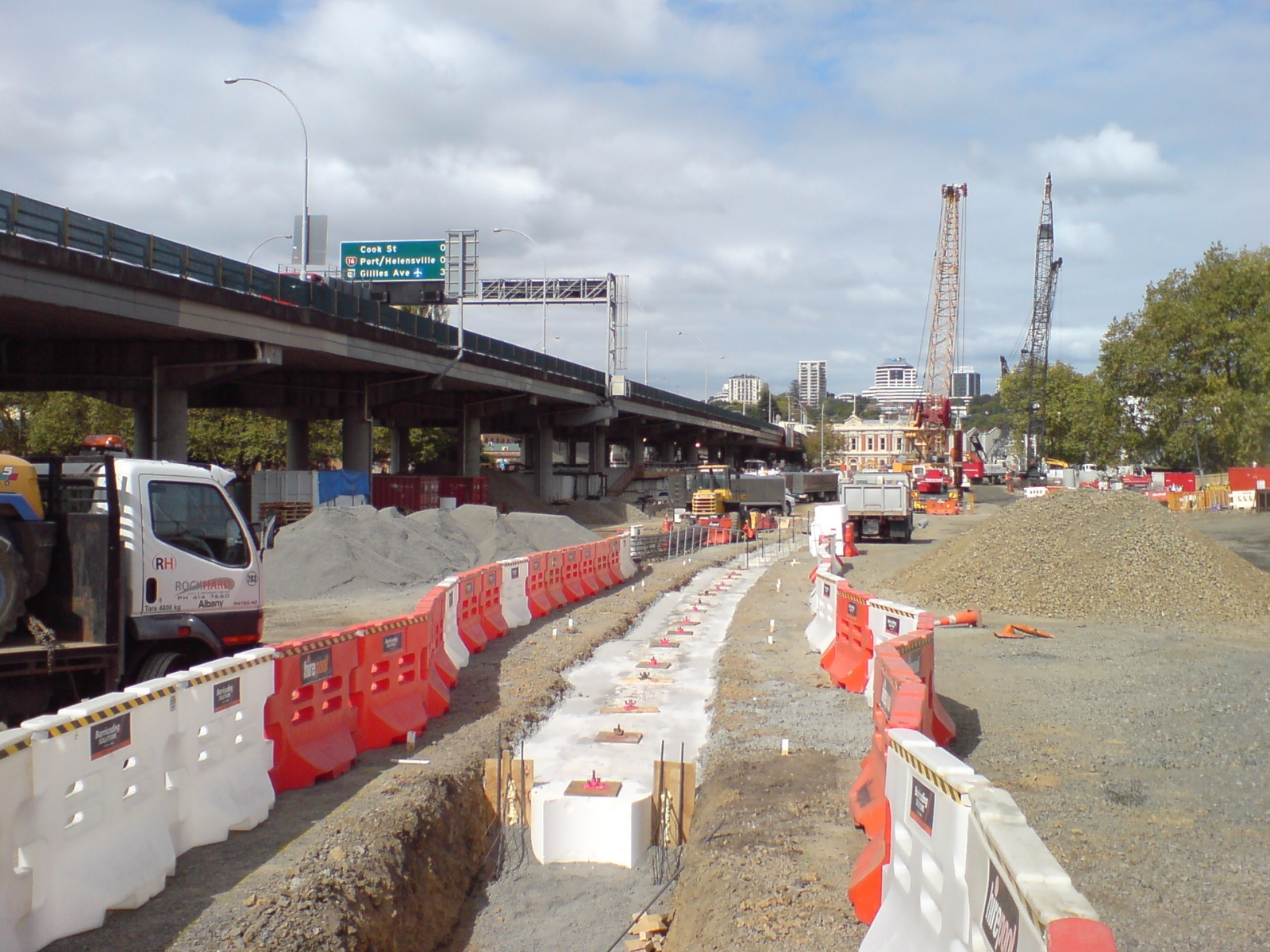 Construction work on the Victoria Park Tunnel in Auckland, New Zealand. Looking south along the row of secant piles (interlocking concrete piles) that form one of the tunnel walls. The tunnel has not yet been dug out at this stage. Coordinates somewhat approximate.